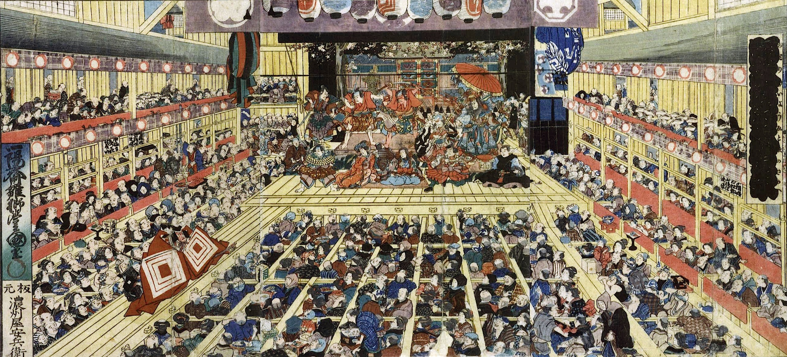 Odori-keiyō Edo-e no Sakae by Toyokuni Utagawa III, depicting the July 1858 production of Shibaraku.